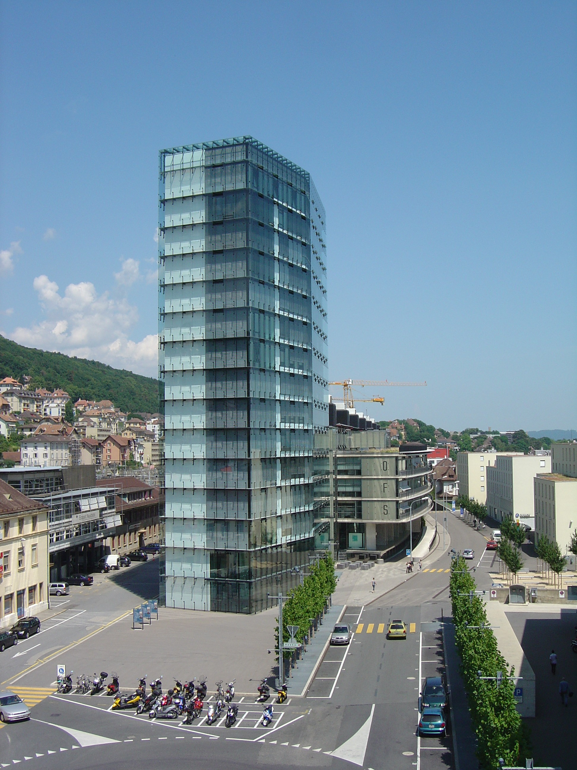 Tower of the Swiss Federal Statistical Office in Neuchâtel.